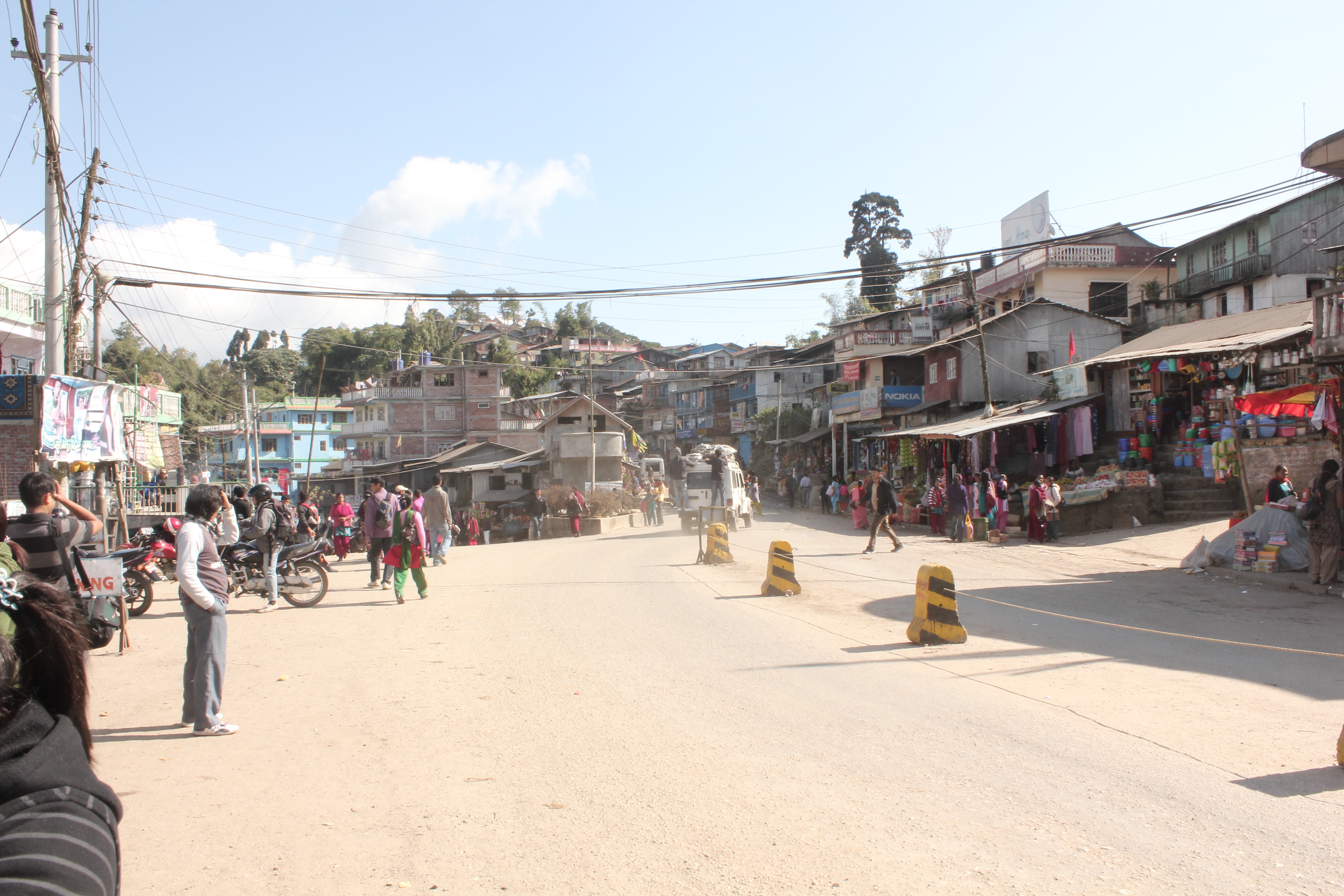 Fikkal Bazaar Chwok